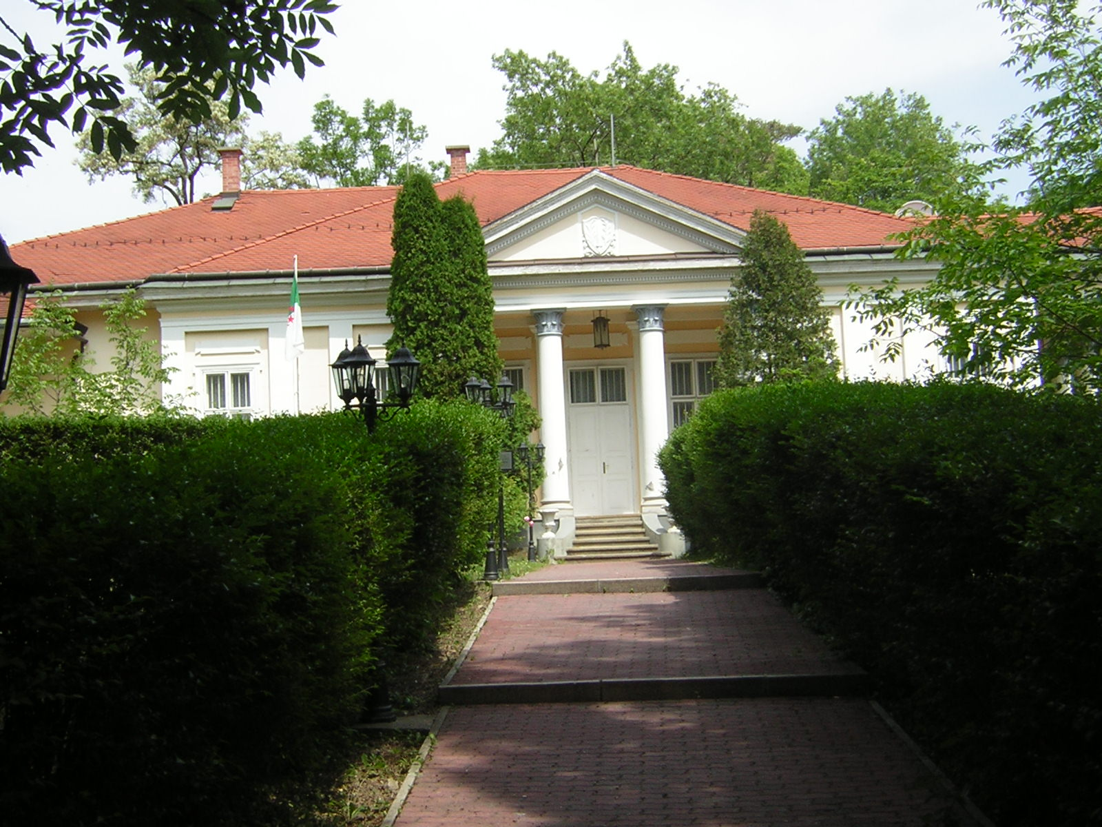 Classicist Villa in Buda district, Budapest